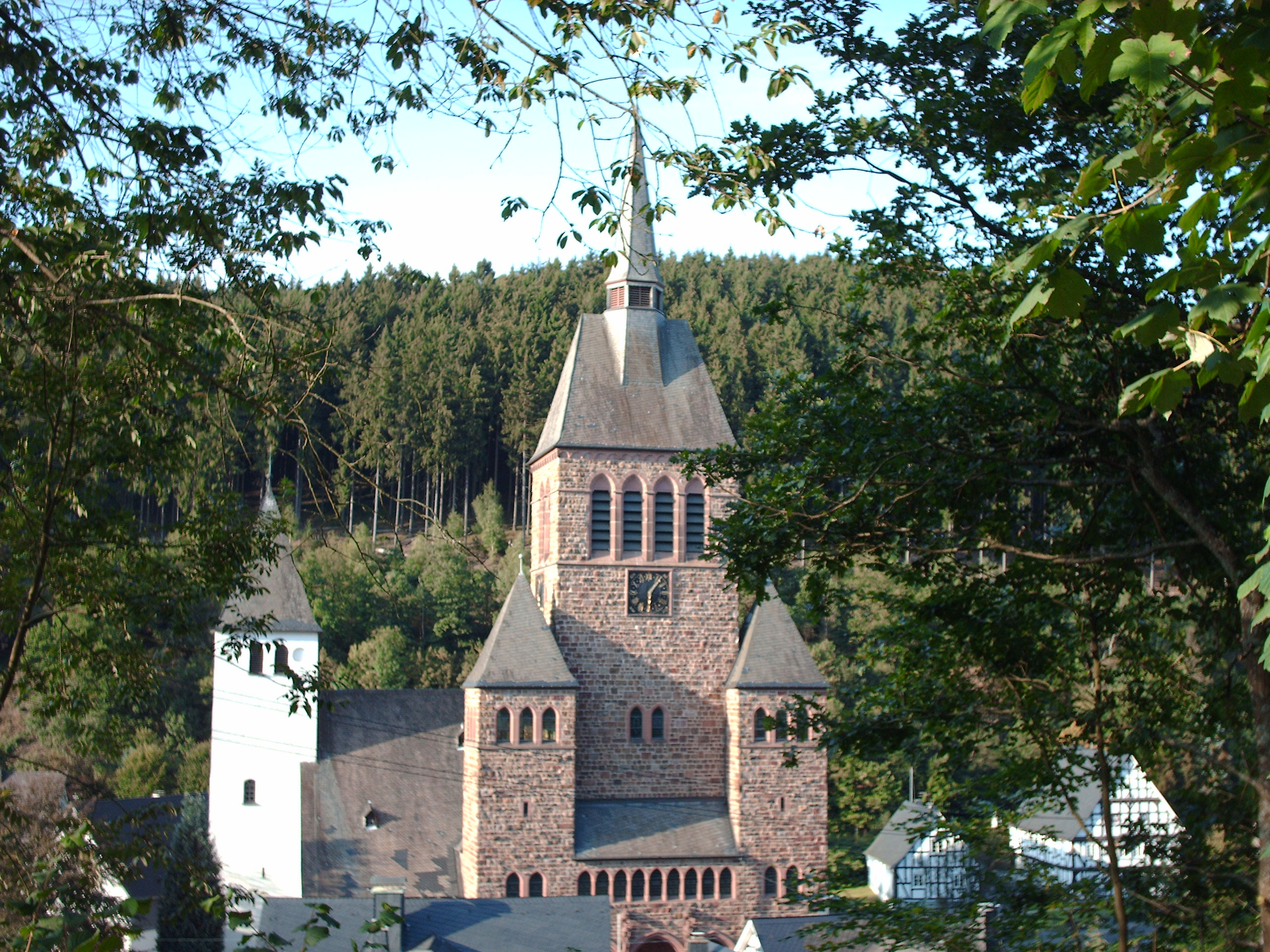 St. Peter and Paul's church, Kirchhundem, Germany check usage